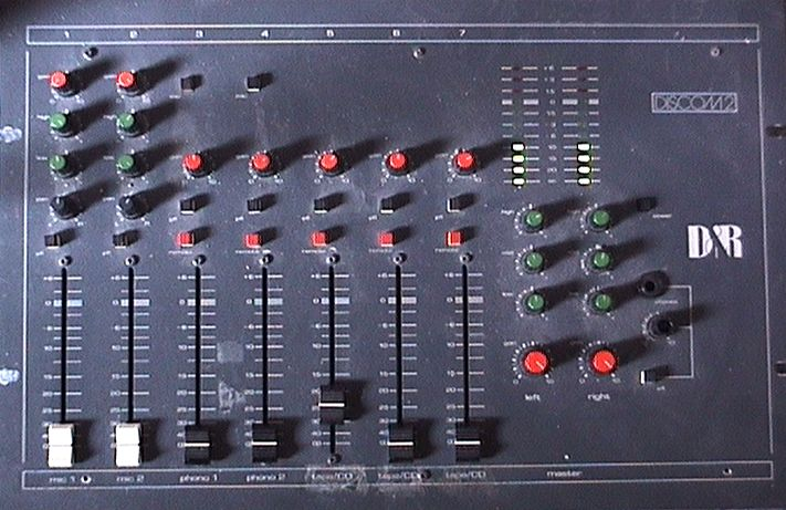 Relatively simple audio mixing console D&R Discom 2